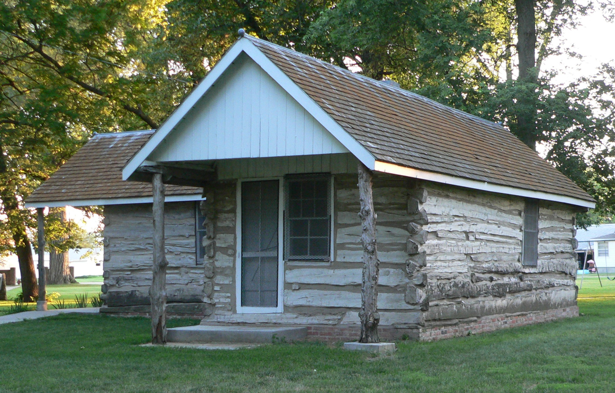 First Custer County Courthouse in Callaway, Nebraska; seen from the northeast. The log building was constructed in 1876, and is listed in the National Register of Historic Places.